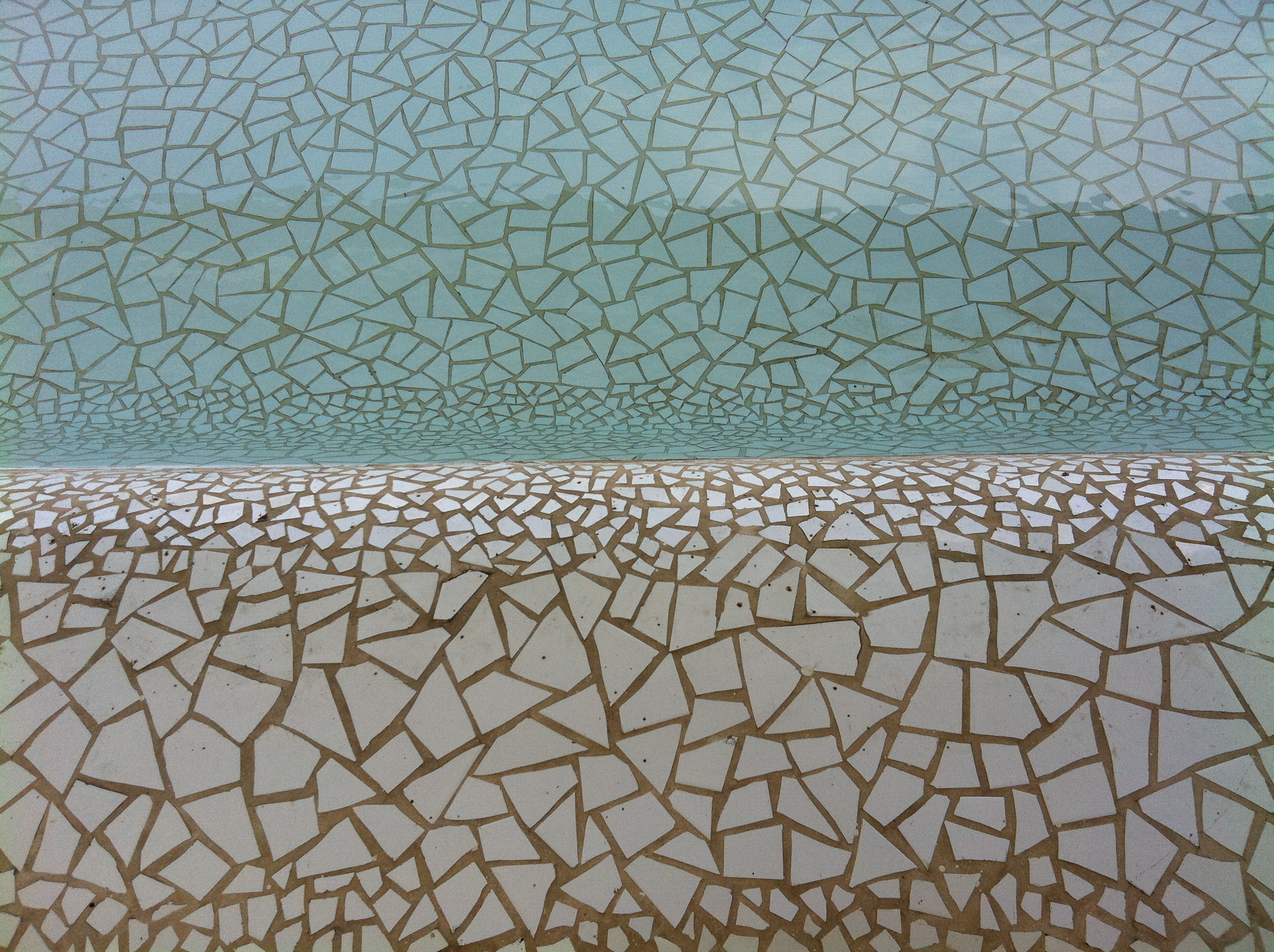 Interiors of Palau de les Arts Reina Sofia